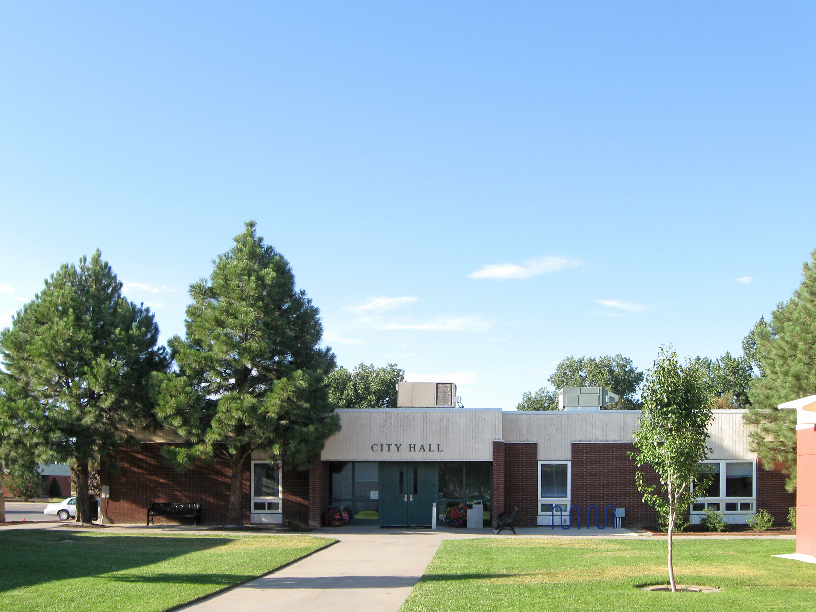 Aztec (New Mexico) City Hall, located in the City of Aztec Municipal Complex at 201 W. Chaco.